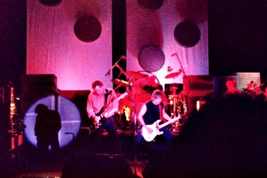 David Gilmour performing in Brussels.